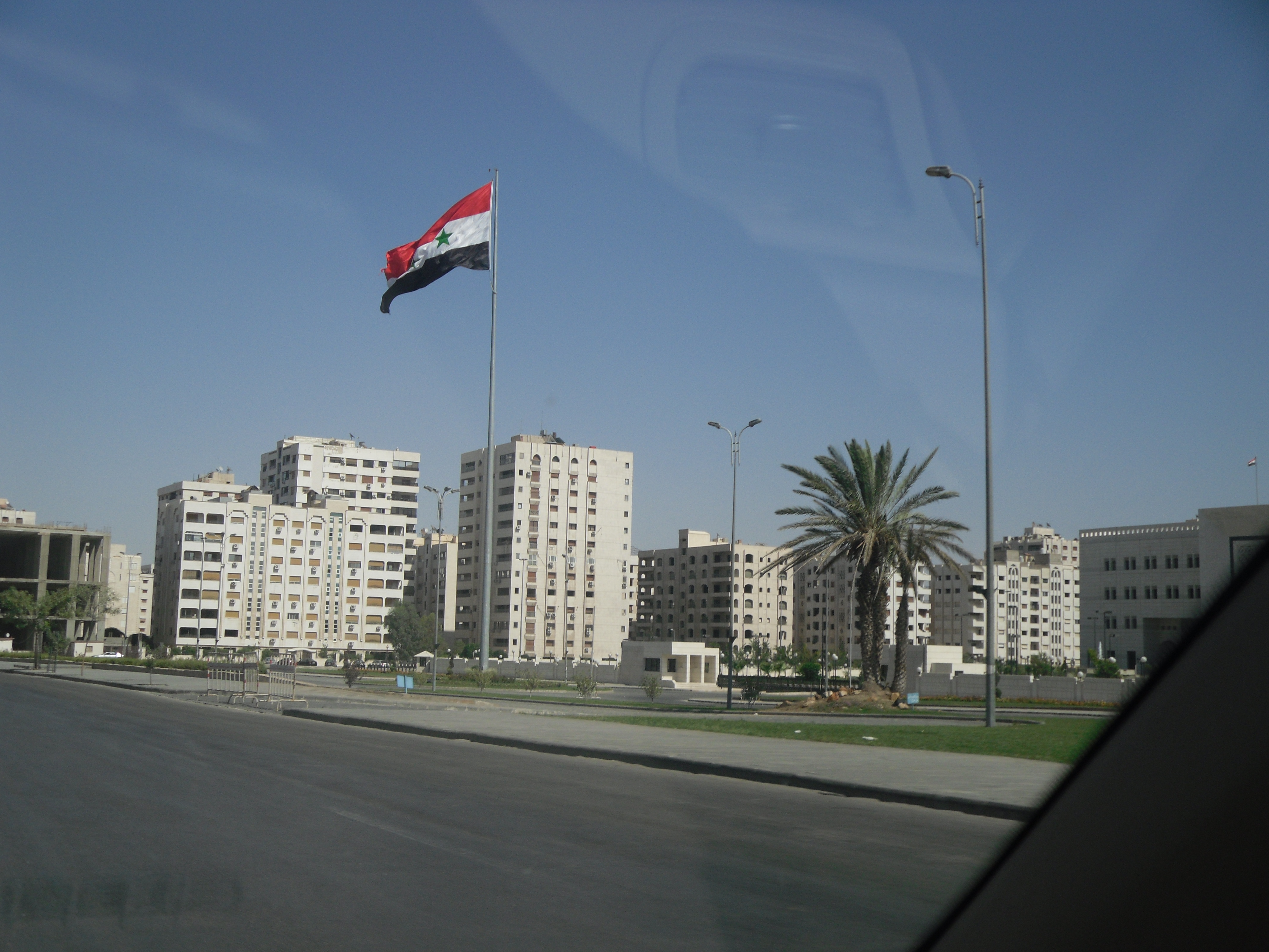 Scene from Kafarsouseh